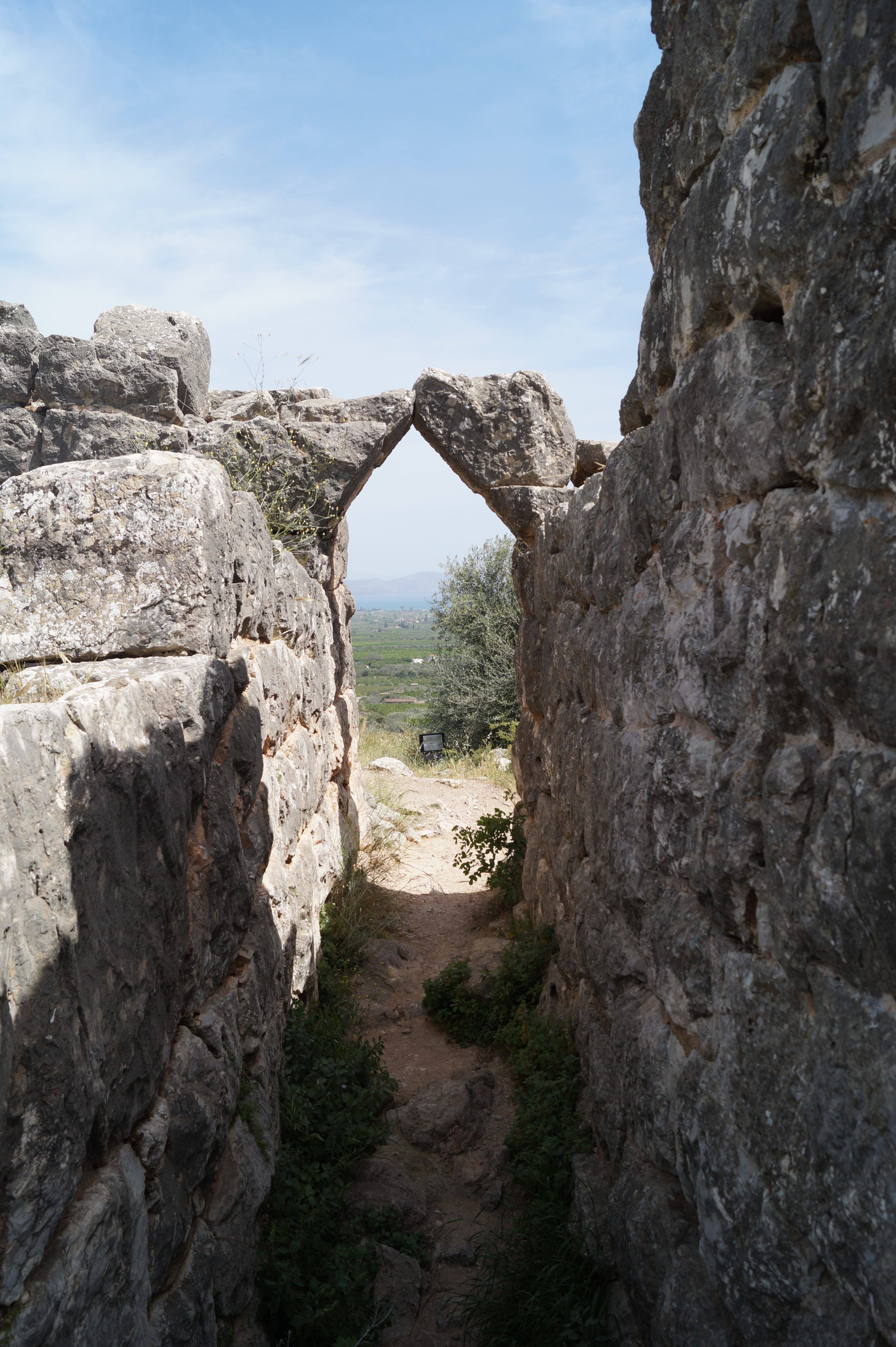 Pyramid of Hellenikon, Argolis, Greece: Corridor and door.